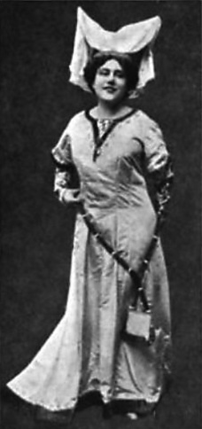 Photograph of opera singer, Emmy Destinn, in the role of Kezal for The Bartered Bride